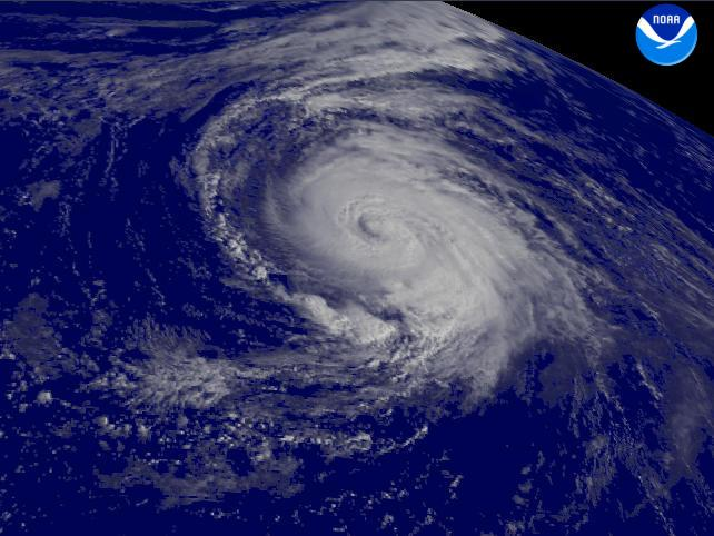 Hurricane Karl